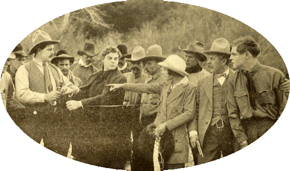 Advertisement in Moving Picture World